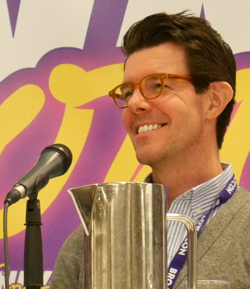 A photo of the Broadway actor Gavin Lee at Broadway Con 2019